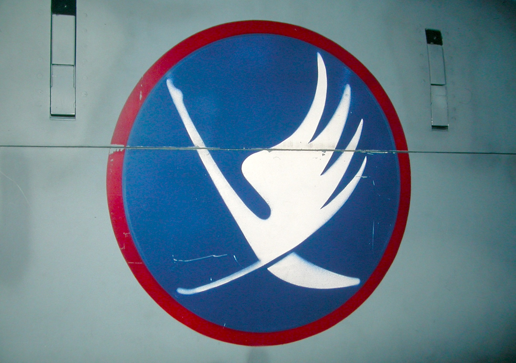 19 Sqn Swiss Air Force